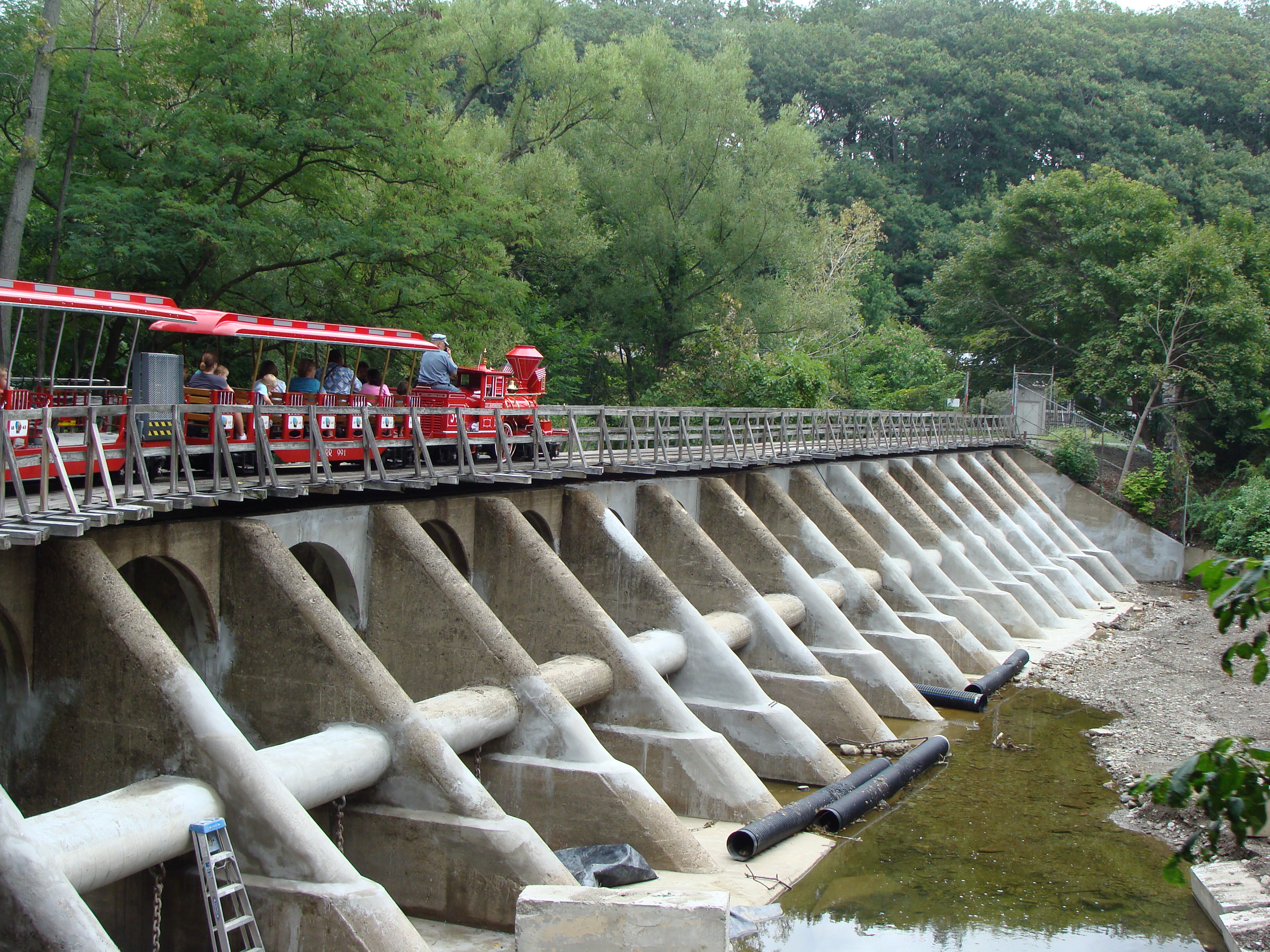 The drift catcher on the Mill Creek being traversed by the miniature train at the Erie Zoo.